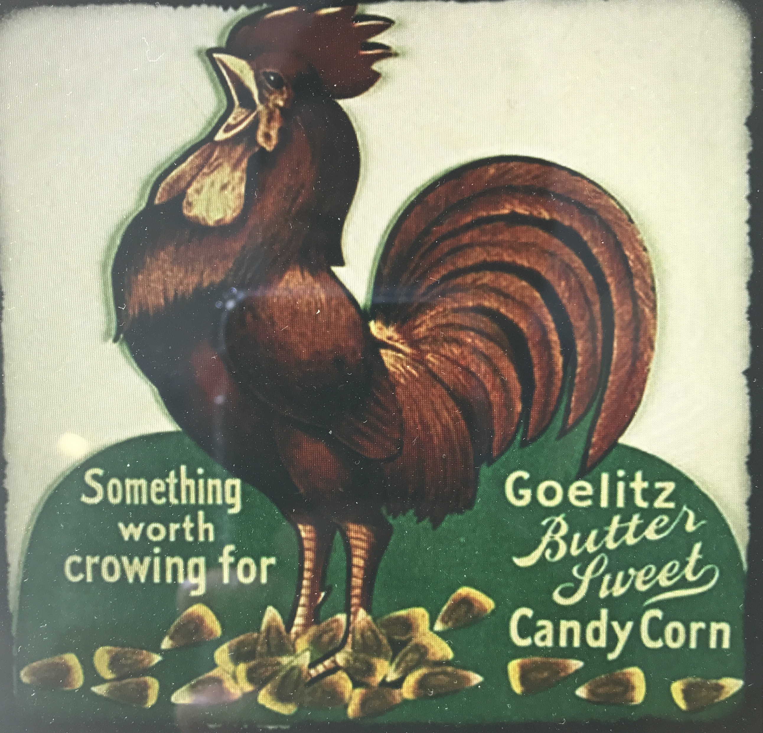 The original candy corn sold as "chicken feed" in the early 20th century